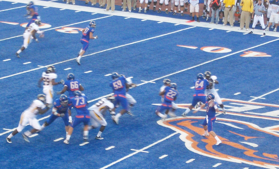 Kellen Moore trowing a pass during Boise State's game vs Toledo on October 9, 2010 at Bronco Stadium in Boise, Idaho.